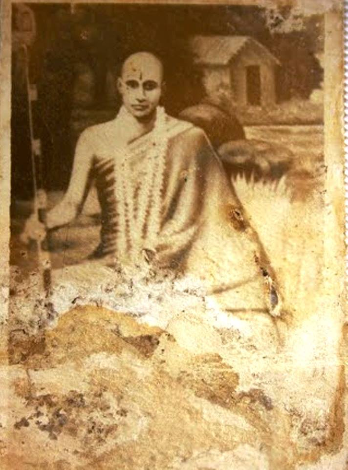 Tridandi Swami Vishwaksenacharyaji in his youth(right after taking renunciation).